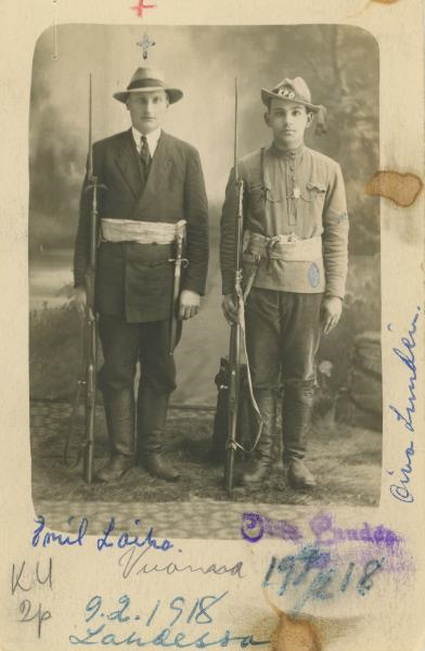 Finnish Red Guard fighters Emil Laiho (1889-1918) and Oiva Lundén (1895-1993) in Lahti.